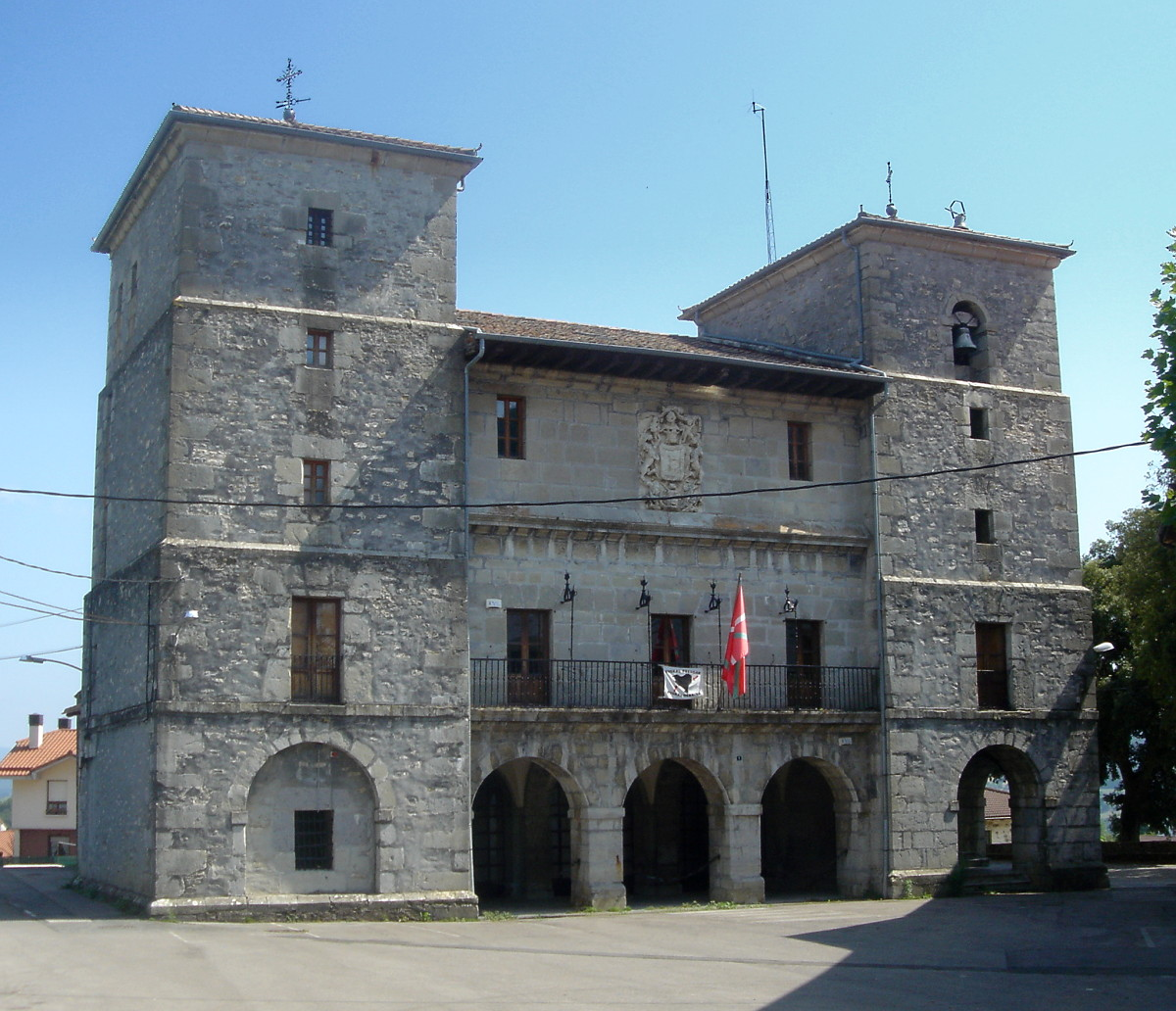 Town Hall of Aiara (Araba, Basque Country, Spain)